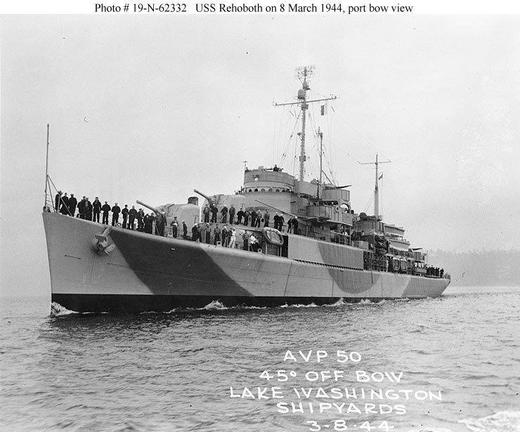 United States Navy seaplane tender USS Rehoboth (AVP-50) off Houghton, Washington, on 8 March 1944